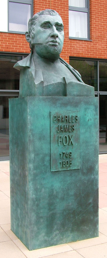 Charles James Fox - bust on plinth - Chertsey, United Kingdom - 2006-08-10 Photo take by & copyright Tagishsimon 2006-08-10